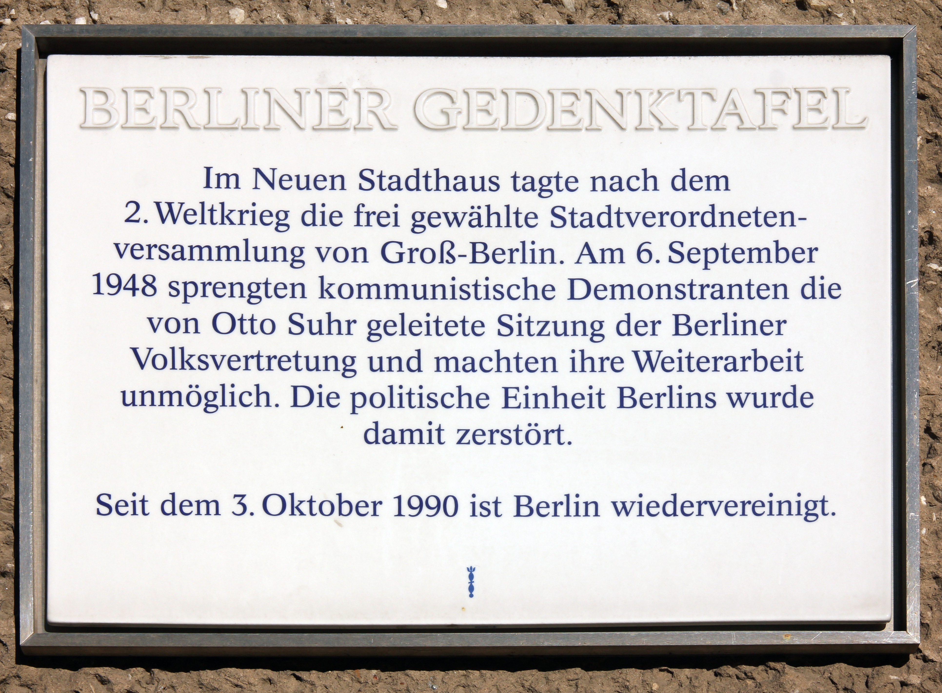 Berlin memorial plaque, Neues Stadthaus, Parochialstraße 1-3, Berlin-Mitte, Germany